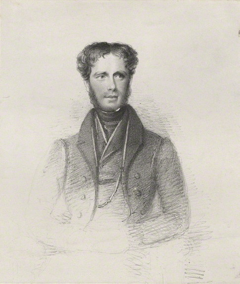 William Henry Cholmondeley, 3rd Marquess of Cholmondeley, by J.M. Johnson, lithograph, 1832